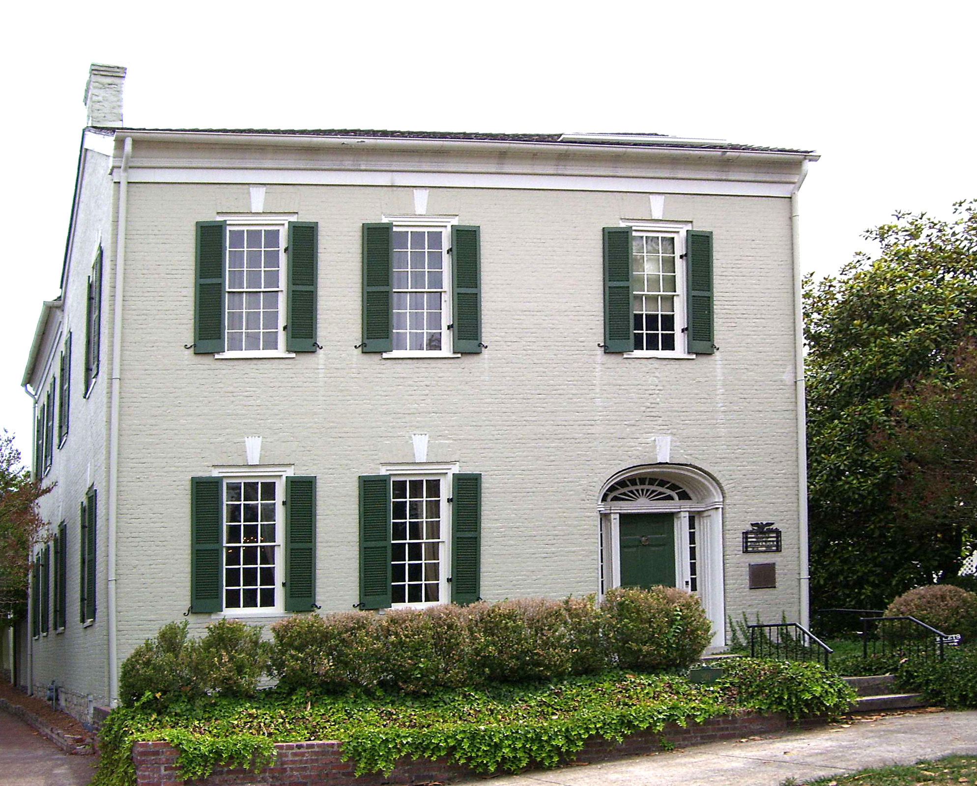 The James K. Polk National Historic Site, the house of President James K. Polk in Columbia, Tennessee. Taken by ProhibitOnions, 2007.